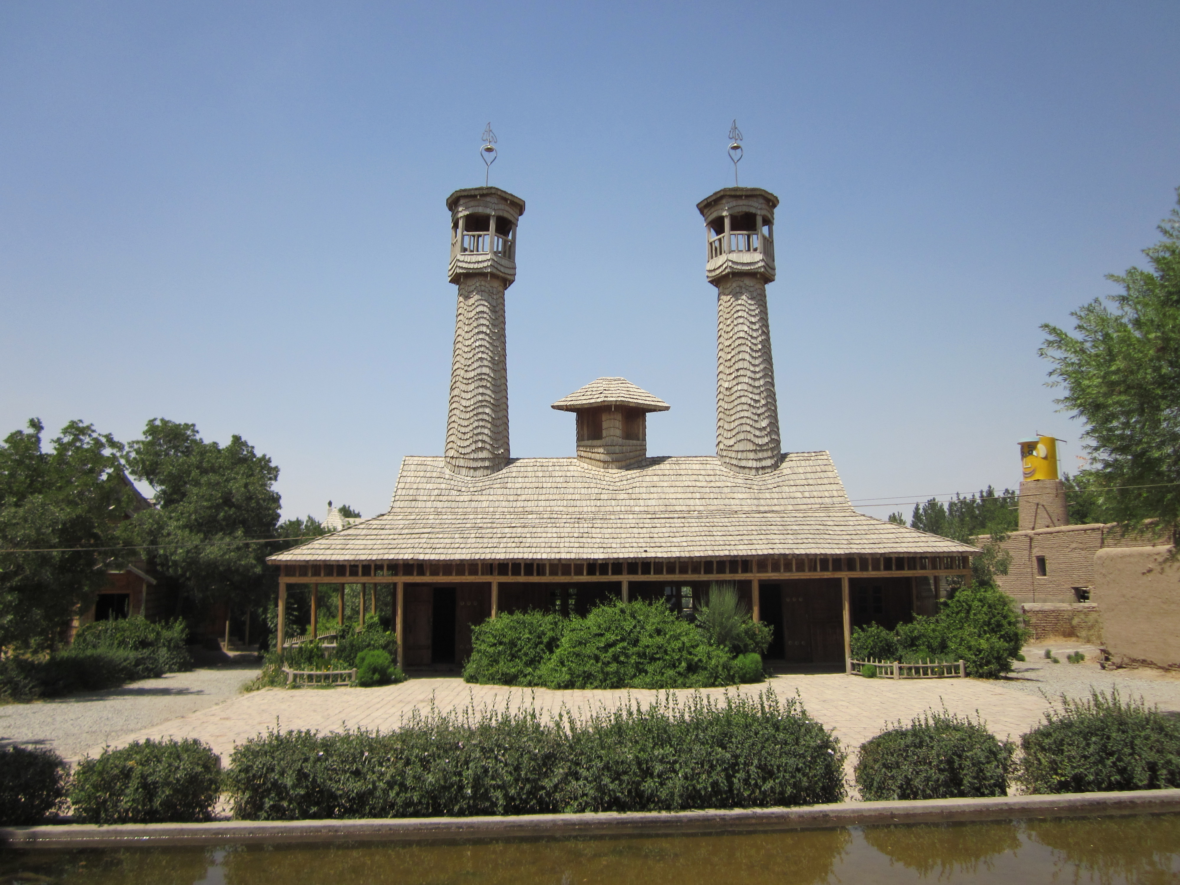 Wooden mosque at Neyshabour, Iran.